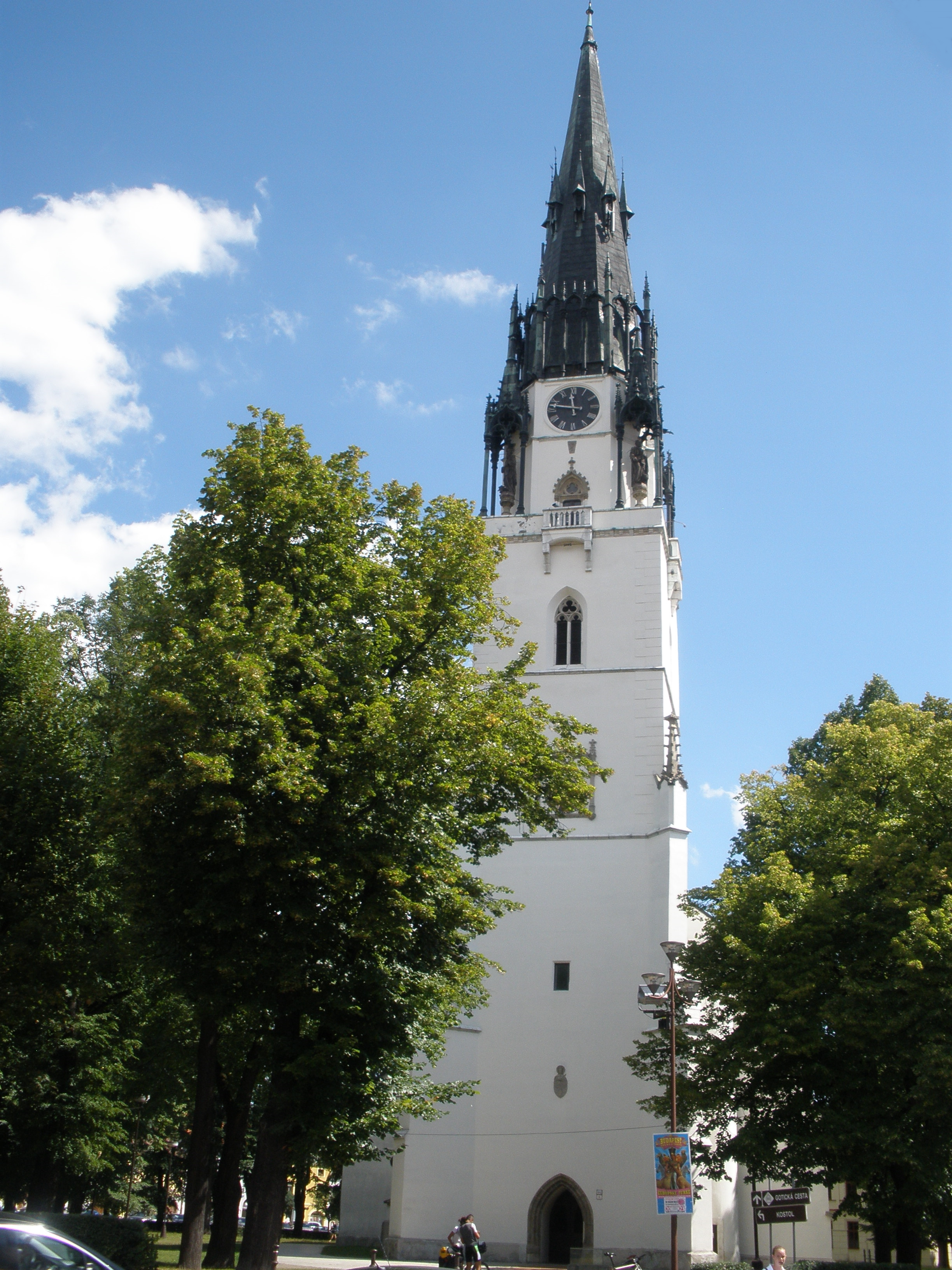 Veža kostola